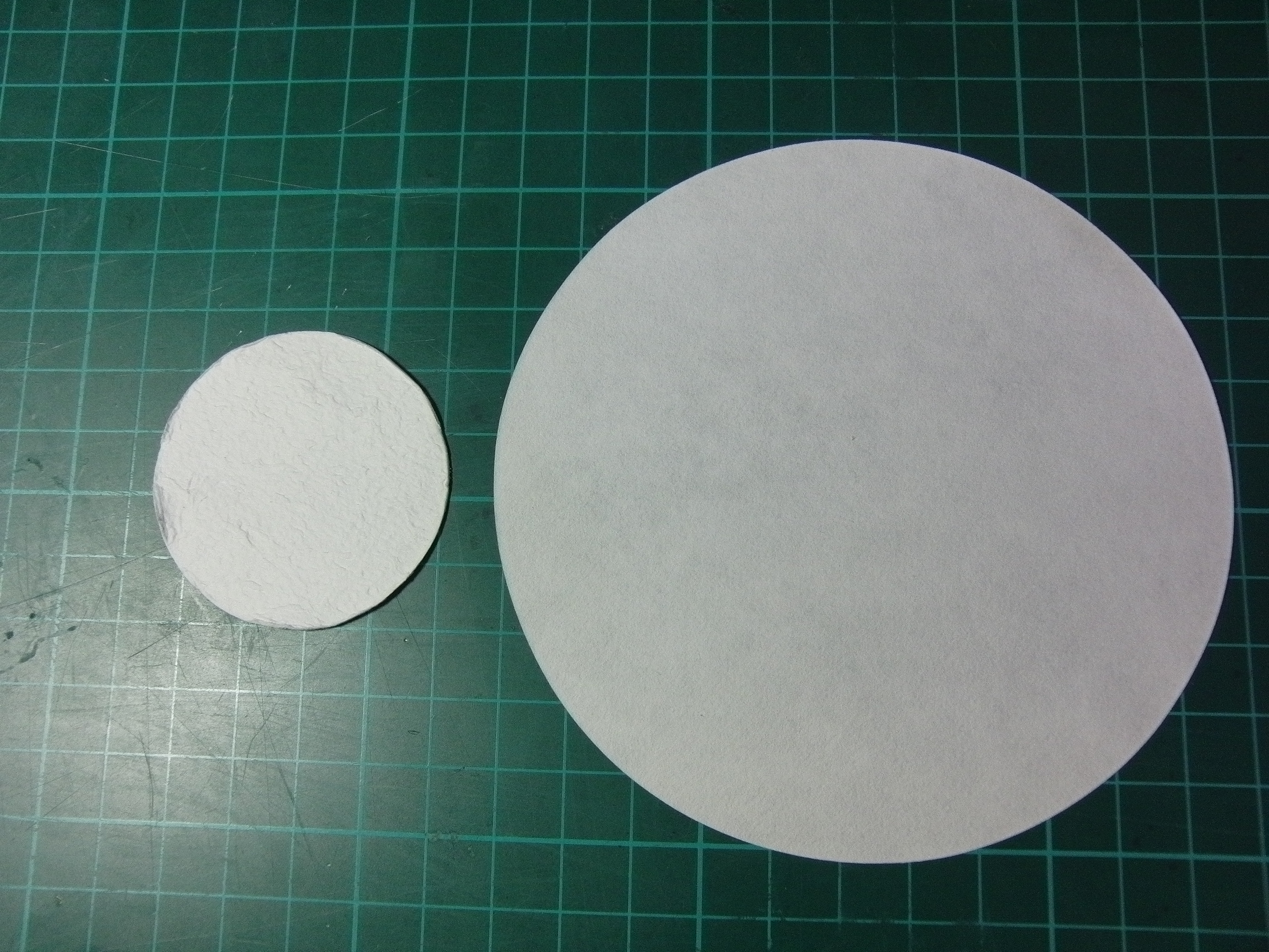 Filters (Left:Glass fiber) (Right:Paper)